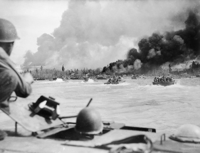 Last dash to shore, aboard American manned Alligators, during the landing of Australian troops at Balikpapan, Borneo. Smoke from the ruins of enemy positions and burning oil wells is visible in the background. Shore installations were subjected to an intensive naval bombardment before the landing operation.